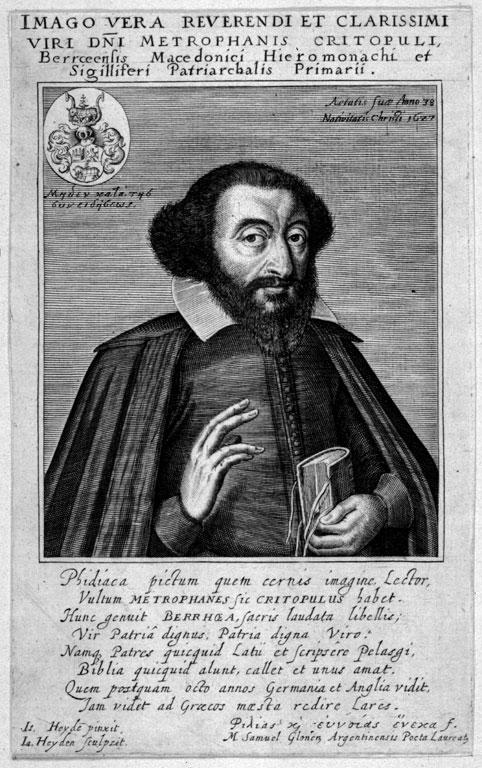 Metrophanes Kritopoulos – (1589 – 1639) Theologe; Patriarch Griechenland, Ägypten Imago vera Reverendi et Clarissimi Domini Metrophanis Critopuli, Berrceensis Macedonici, Hieromonachi et Sigilliferi Patriarchalis Primarii Aetatis suae 38 Nativitatis Christi 1627 Vorlage : IMAGO VERA REVERENDI ET CLARISSIMI / VIRI D[omi]NI METROPHANIS CRITOPULI, / Berrceensis [sic] Macedonici Hieromonachi et / Sigilliferi Patriarchalis Primarii. Inschriften : Meden kata tes / syneidedeos. Aetatis suae Anno 38 / Nativitatis Christi 1627. Phidiaca pictum quem cernis imagine Lector, / Vultum METROPHANES sic CRITOPULUS habet. / Hunc genuit BERRHOEA, saeris laudata libellis; / Vir patria dignus, Patria digna Viro! / Namq[ue] Patres quicquid Latu et scripsere Pelasgi, / Biblia quicquid alunt, callet et unus amat. / Quem postquam octo annos Germania et Anglia vidit. / Iam videt ad Graecos maesta redire Lares.// Philias .. eunoias heneka f. / M. Samuel Gloner [Straßburg 1598-1648], Argentinensis Poeta Laureatus. Beschreibung : Bis beinahe zu den Hüften sichtbar, ist der griech.-orth. Theologe und Musikgelehrte im Halbprofil von rechts vor parallelschraffiertem Hintergrund wiedergegeben, wobei sein Blick zum Betrachter gerichtet ist. Während die rechte Hand wie zum Redegestus erhoben ist, hält die linke vor der Brust ein zugeschlagenes Buch, in das noch der Zeigefinger eingemerkt ist. Das breitflächige Gesicht mit der gebogenen Nase wird von dichtem Haupthaar und einem Vollbart umrahmt. Rahmung : Von doppeltem Linienzug gerahmtes Hochrechteck.